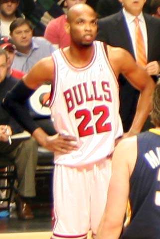 Taj Gibson of the Chicago Bulls vs Indiana Pacers, December 2009